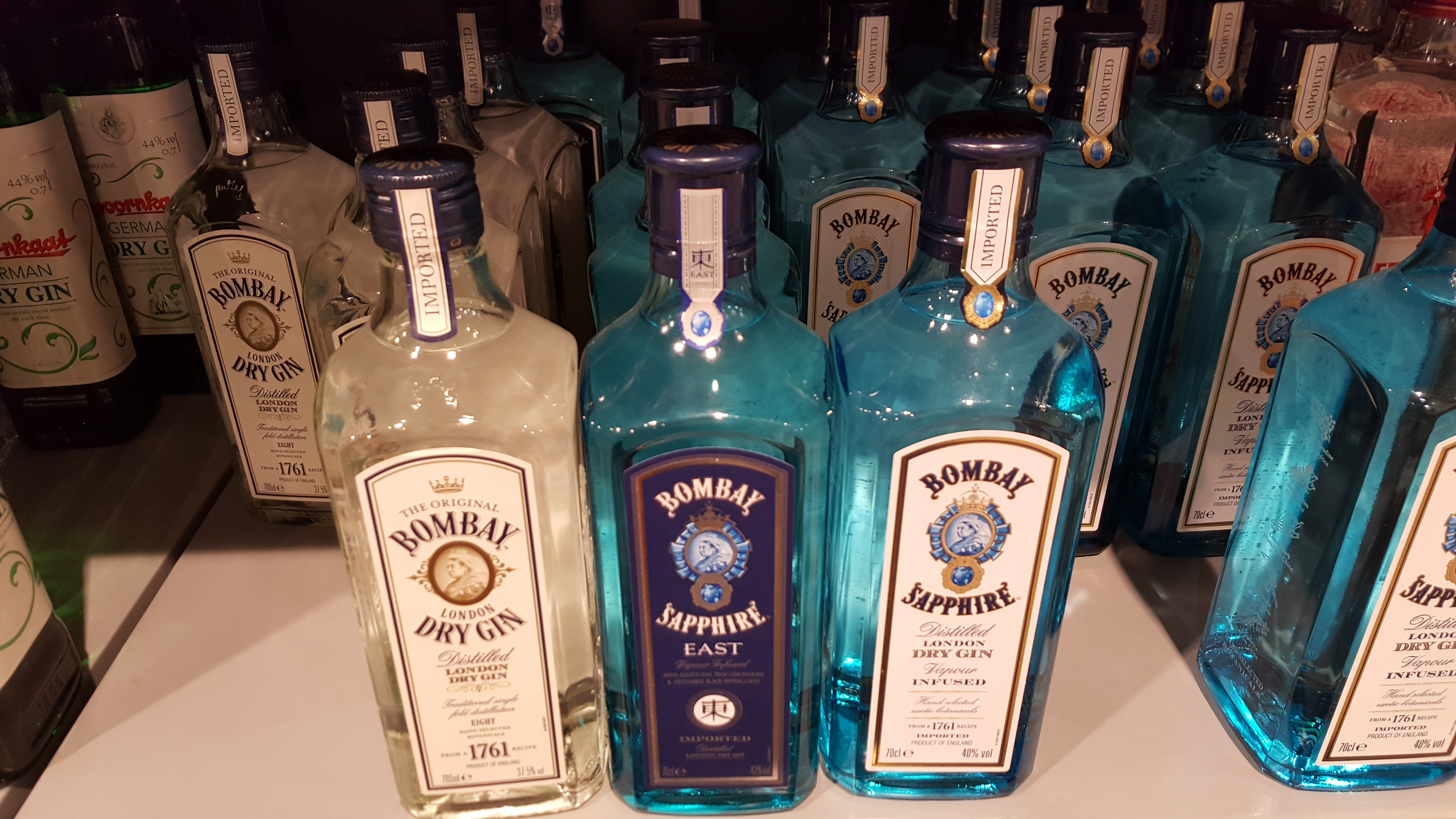 Bombay Sapphire (3 sorts)